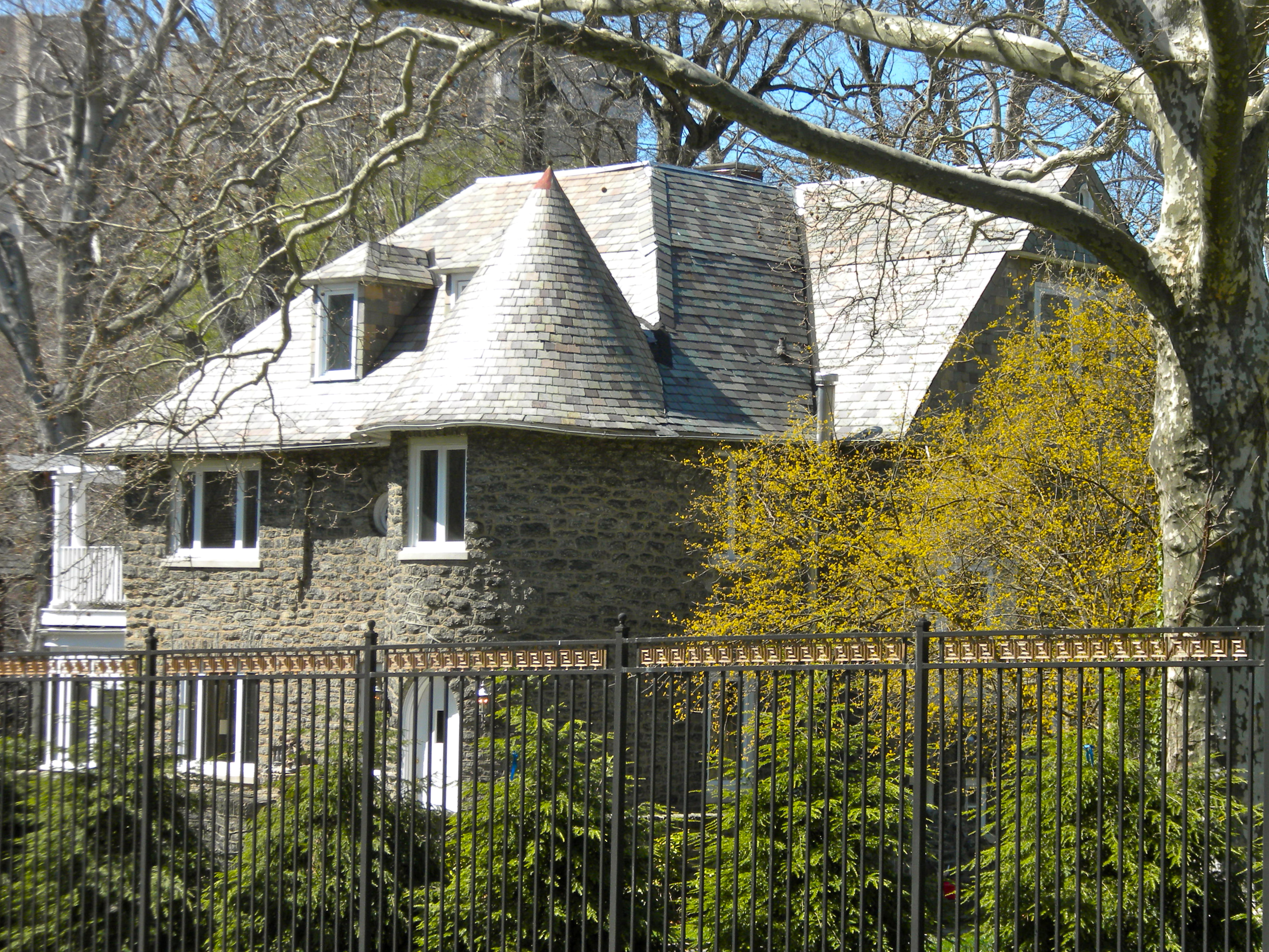 House in Overbrook Farms Historic District in Overbrook Farms neighborhood of Philadelphia. HD on the NRHP since March 21, 1985. The Historic District is roughly bounded by City Line Avenue, 58th Street, Woodbine Avenue and 64th Street. This house is on Overbrook Street between Upland Way and 59th.